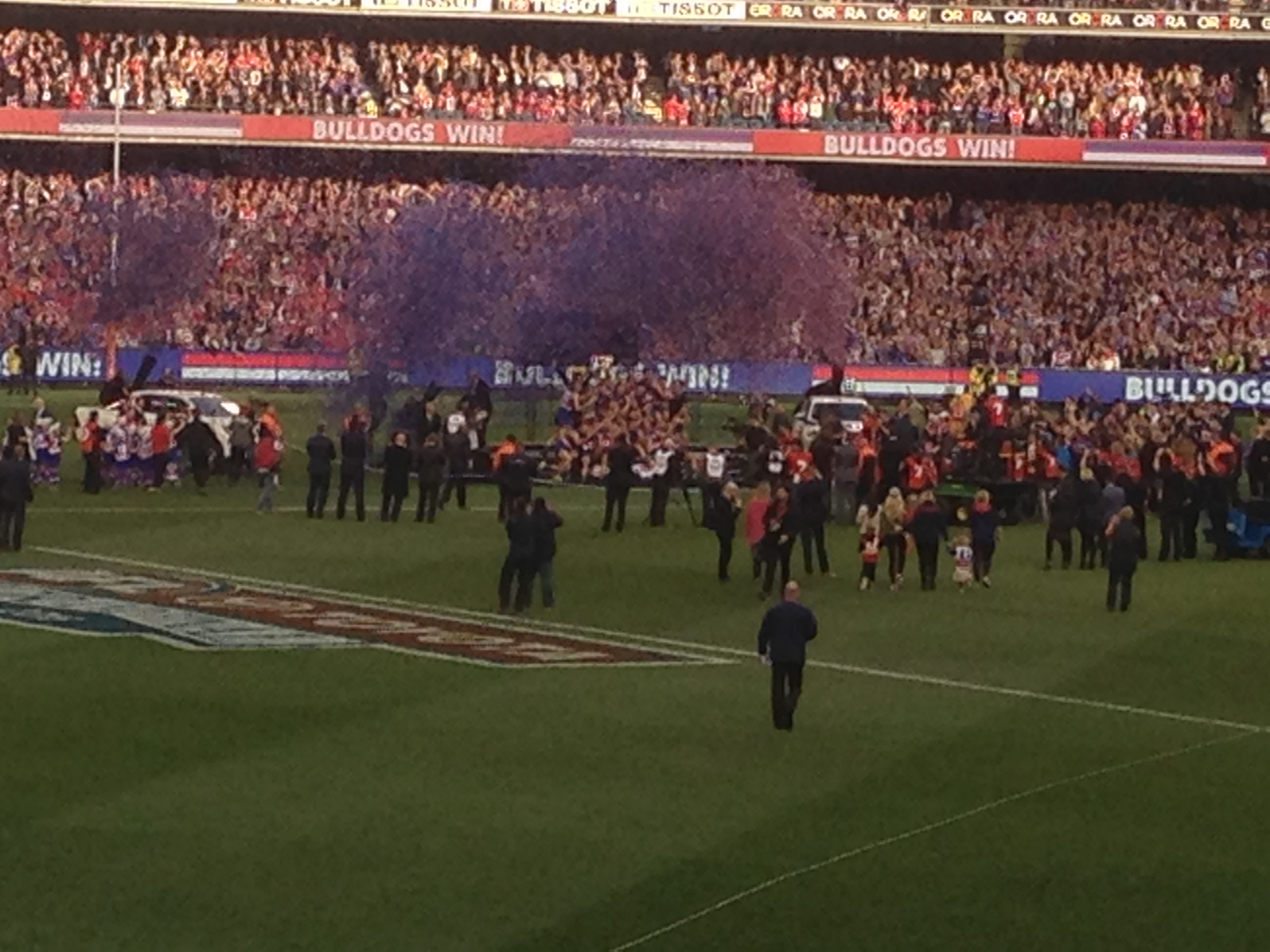 2016 AFL Grand Final. The victorious Western Bulldogs team celebrate with the premiership cup.